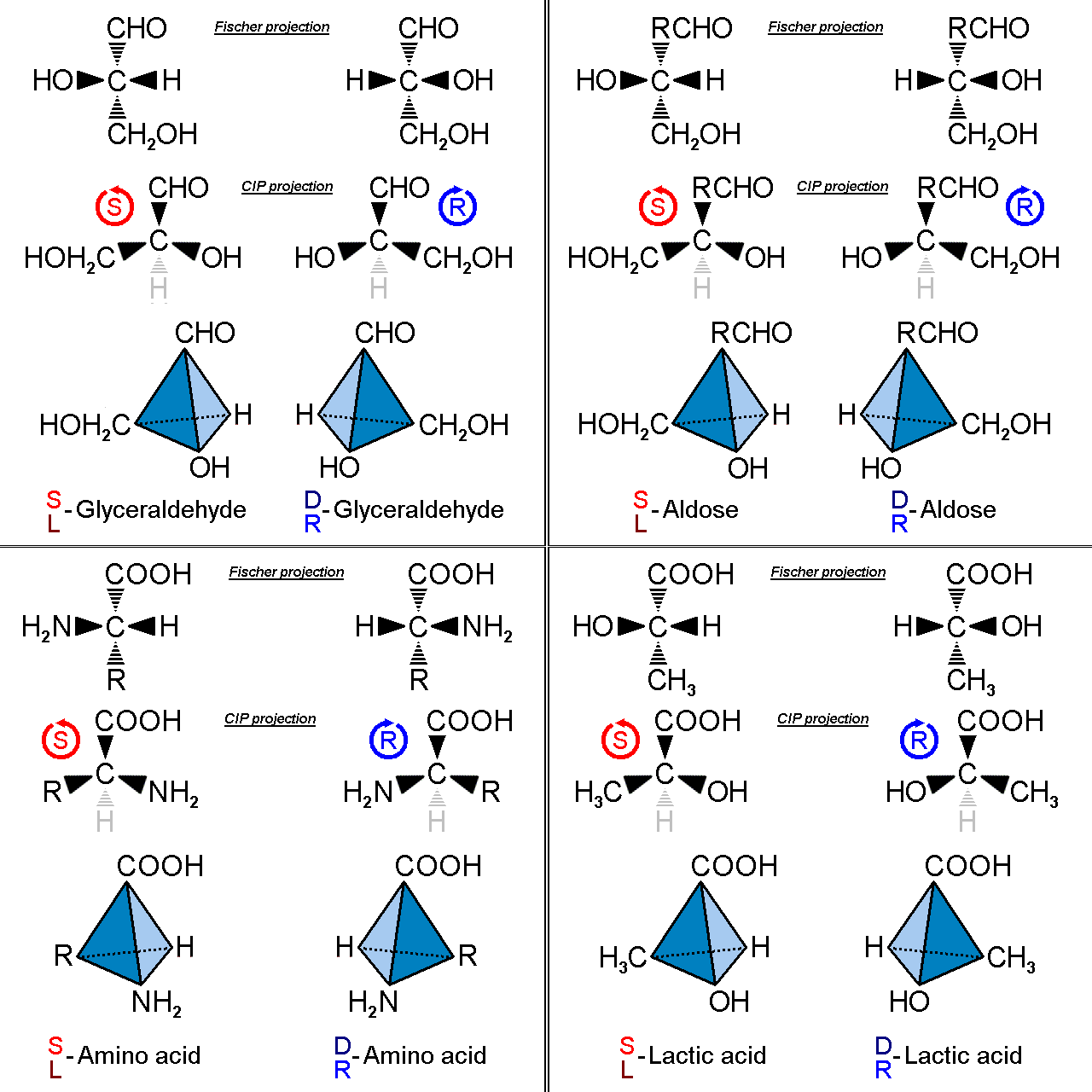 Examples of absolute configuration of carbohydrates and amino acids according to Fischer projection resp. D/L system and Cahn–Ingold–Prelog priority rules resp. R/S system